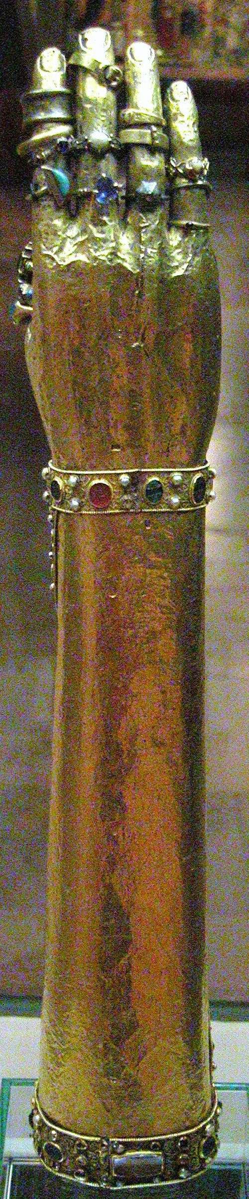 Brunswick, Germany: Rear view of an arm relic of St. Blaise in Dankwarderode Castle.